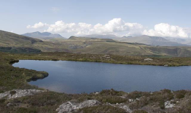 Llyn y Gors. View over Llyn y Gors towards the Snowdonia mountains.